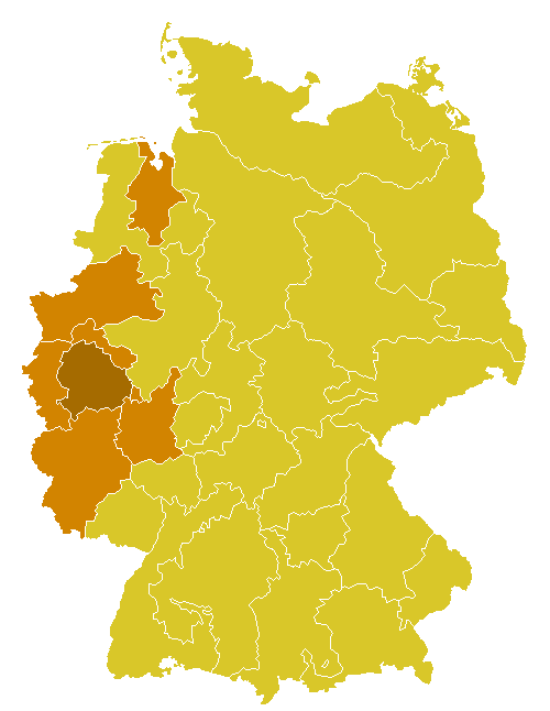 church province of Cologne, Germany